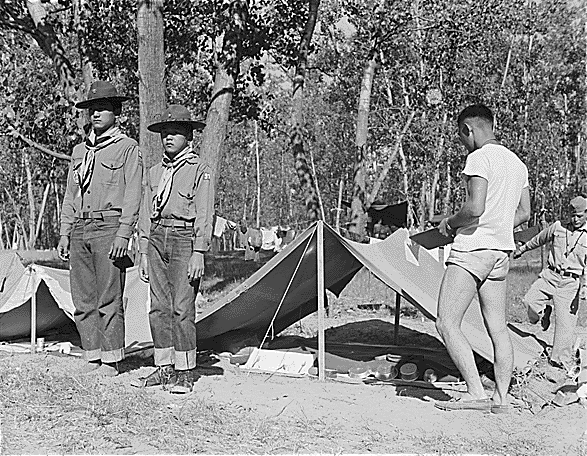 The full caption for this photograph reads: Rohwer Relocation Center, McGehee, Arkansas. A 5-day Boy Scout Camp on the bank of the Mississippi River was composed of nearly a hundred boys from the Rohwer Center, a few less from the Jerome Center, together with a small troop from the nearby town of Arkansas City.